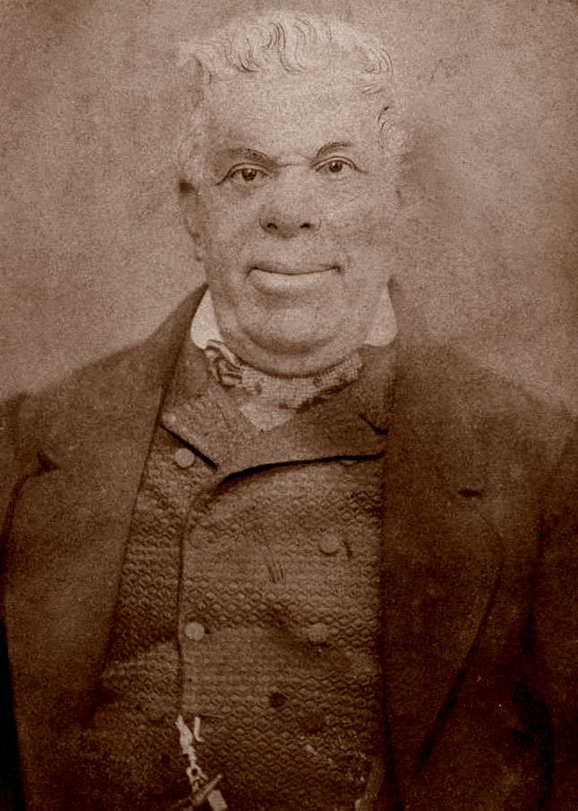 Don Pio Pico - style in 1848 after he returned from Sonora (?) The original photographic image has a handwritten notation beneath the oval with the date of the photograph as 1858. The phrase in the title, "...style in 1848..." refers to matters relating to the composition and more technical issues of the creation of the photograph itself, not the date is was created. Samson22911 (talk) 18:18, 13 July 2010 (UTC)